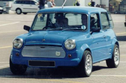 Domino HT (Hard Top)